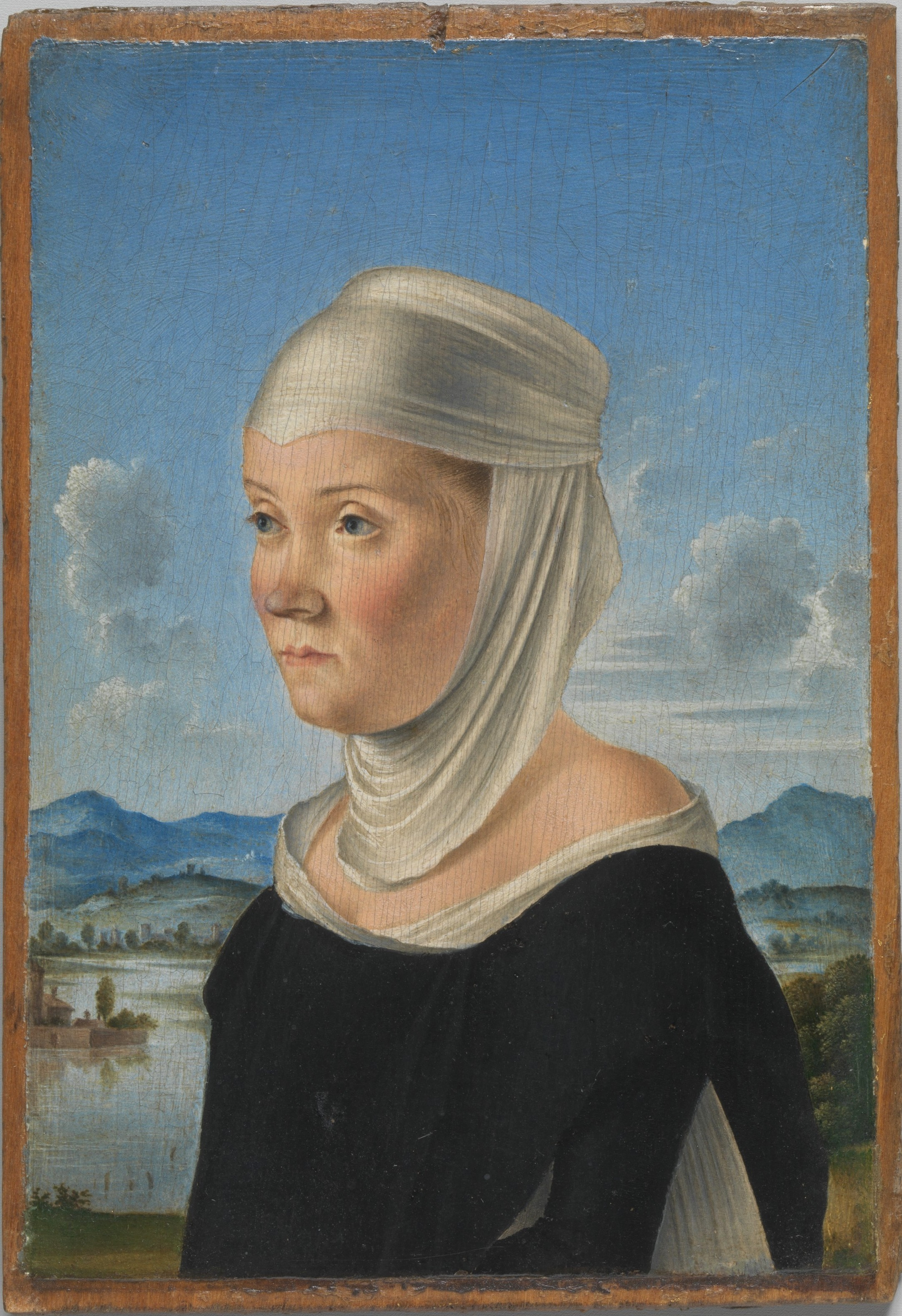 Portrait of Alvise Contarini (recto) and a tethered roebuck (verso); portrait of a woman (recto) and scene in grisaille (verso)